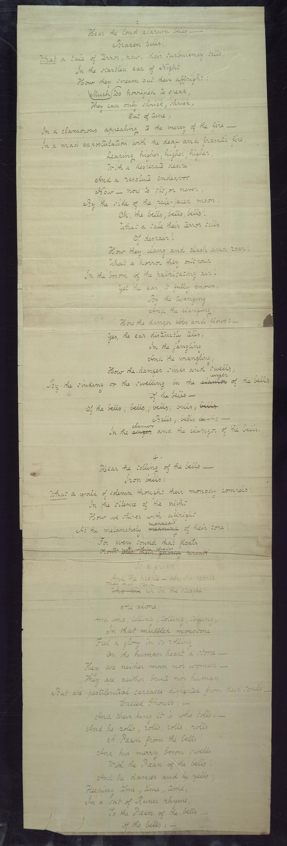 A scan of the 1848 fair copy of the poem "The Bells" by Edgar Allan Poe.